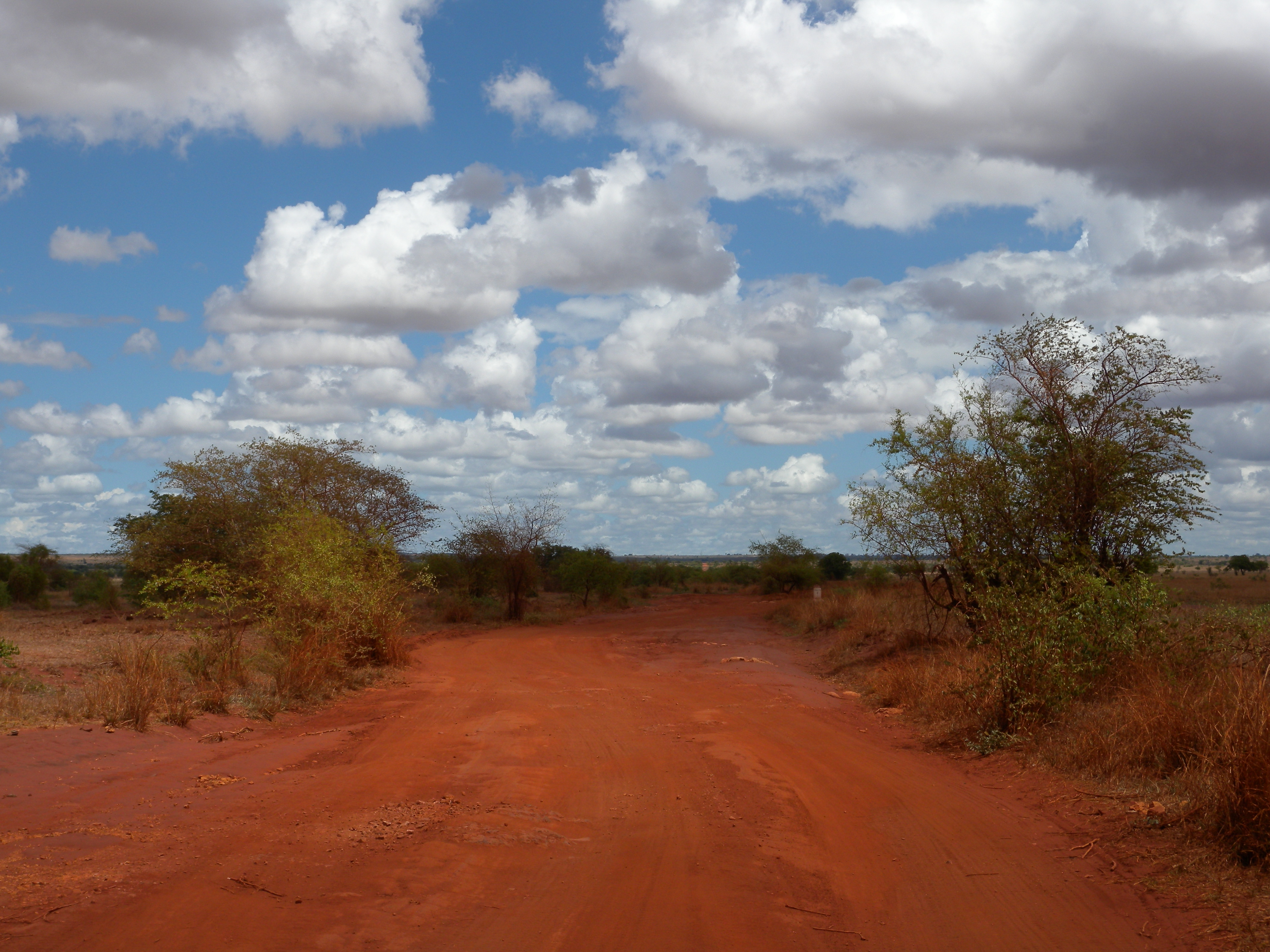 Laterite road, South-Western Madagascar